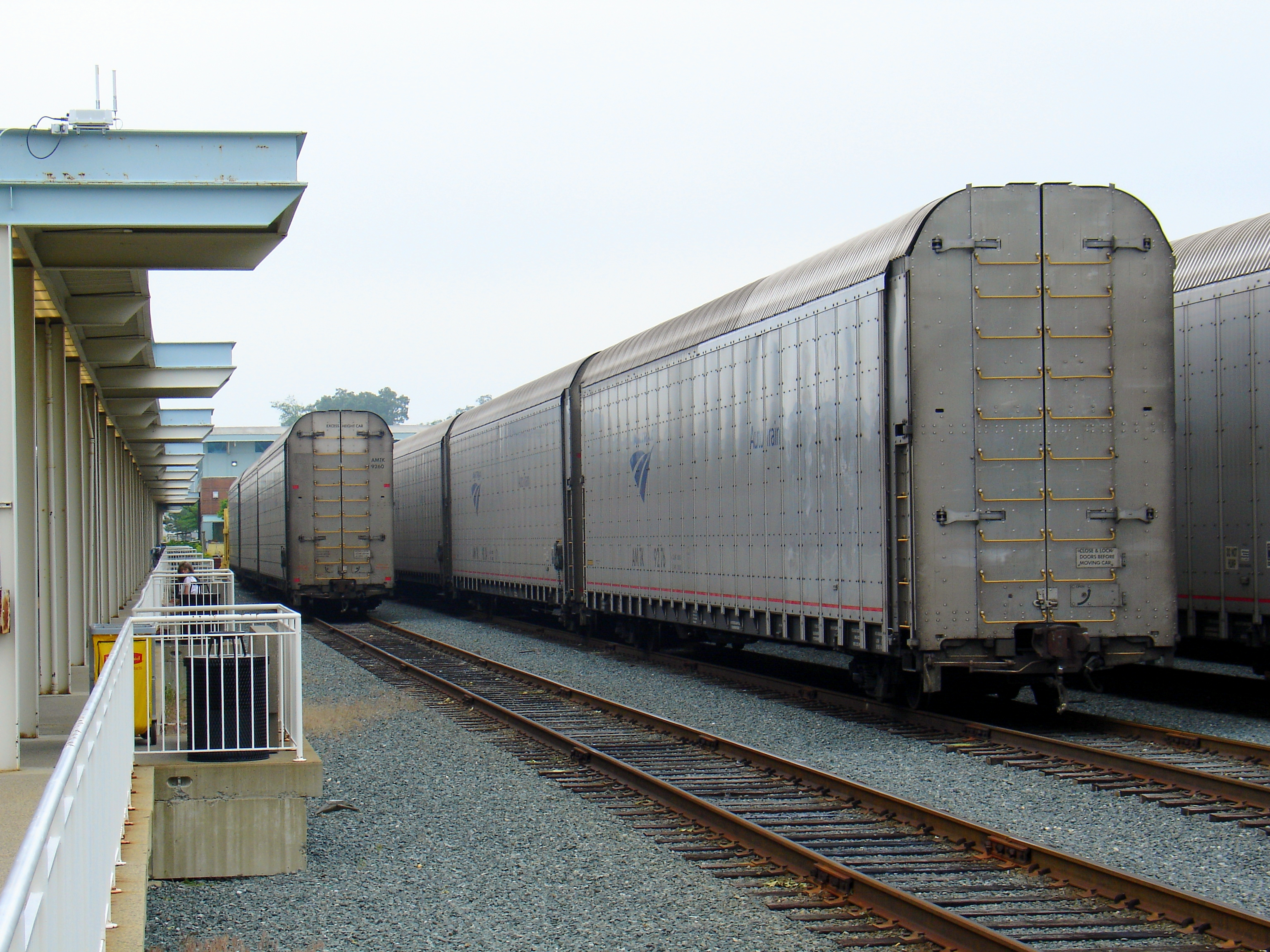 Auto Train autoracks lined up at their loading ramps (not seen) in Lorton Amtrak station at Lorton, Virginia.